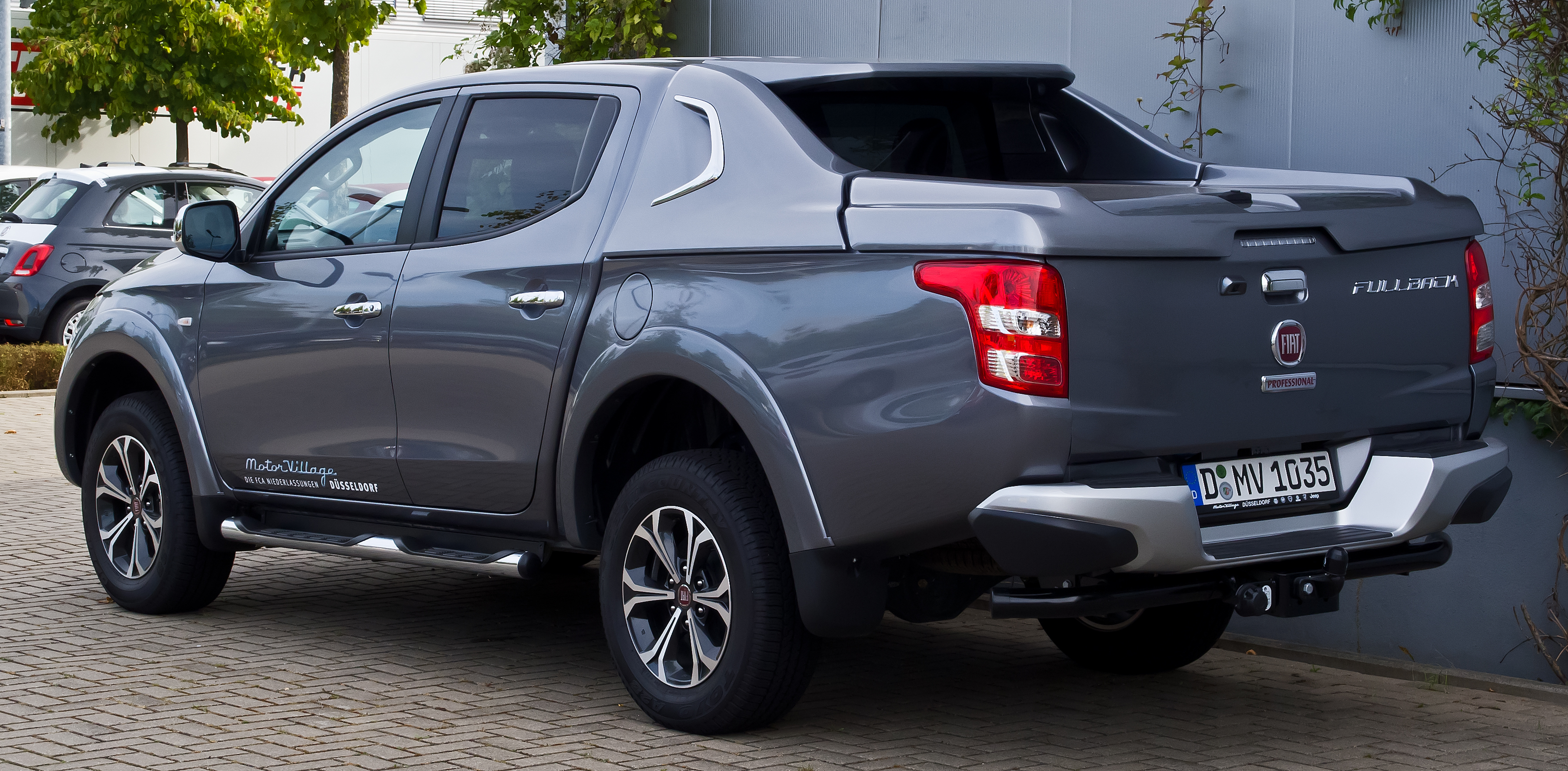 Fiat Fullback Double Cab LX Launch Edition 2.4 Multijet 180 4WD